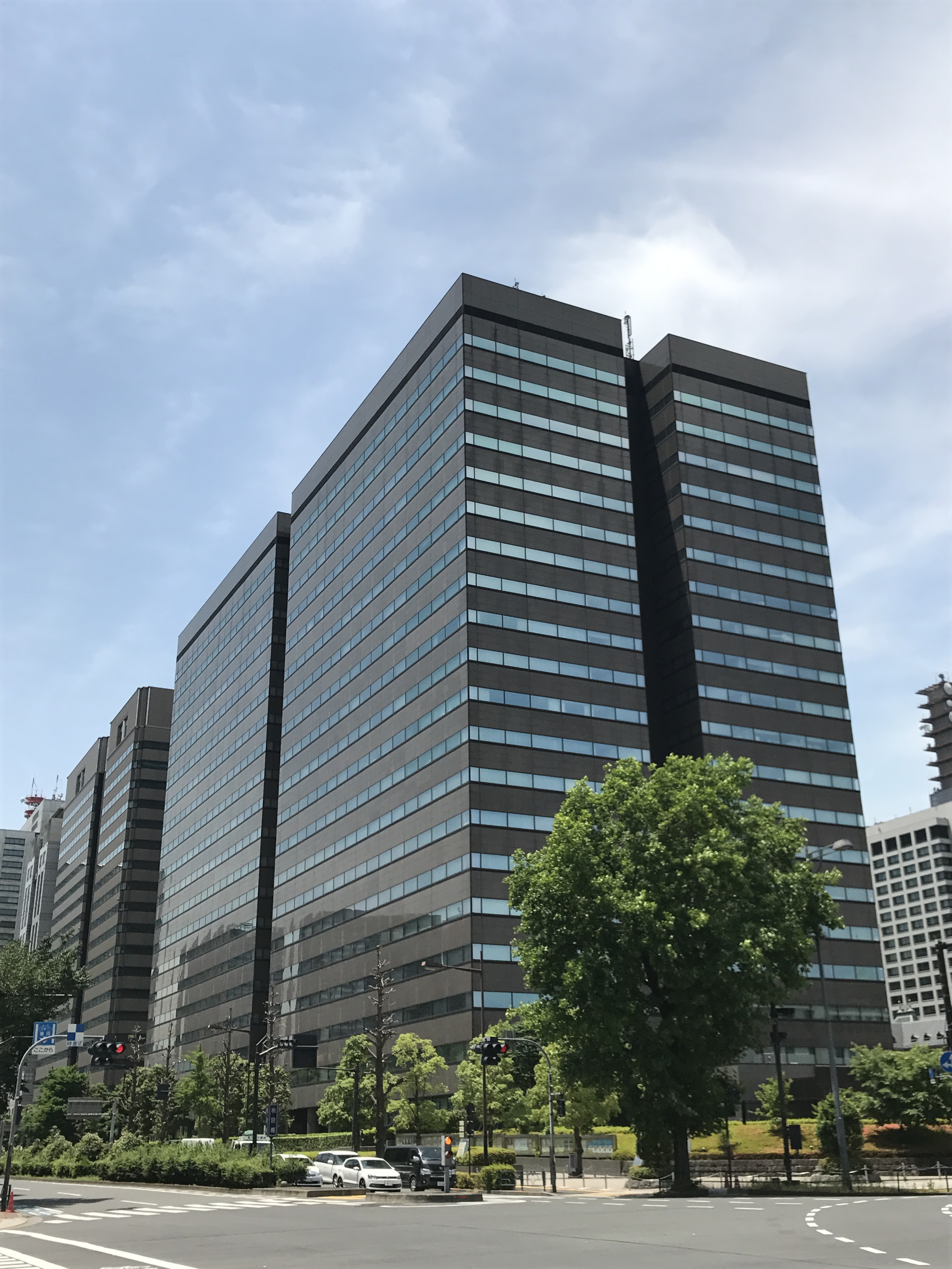 No.6A building of Japanese government office, 1-1-1, Kasumigaseki, Tokyo